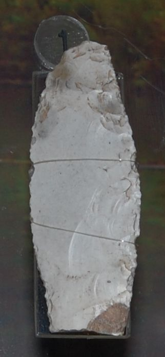 A leaf-point from Cresswell Crags, Derbyshire, England, photopgraphed at Derby Museum and Art Gallery. The museums exhibit label says "Leaf-points were probably spear tips. They are one of the earliest recognisable objects made by fully modern humans in Britain. This is a particularly good example. c.38-35,000 years old". (... I am told by Derby Museum that this object is from Creswell Crags, but is not from the Cresellian Culture - so I'm moving it Victuallers (talk) 15:19, 27 July 2011 (UTC)) The tip of this object is in Manchester museum. Taken during GLAMDerby Backstage Pass.